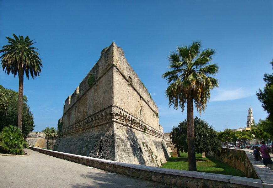 Swabian Castle, Bari, Apulia, Italy. The campanile of the Cathedral can be seen on the right.